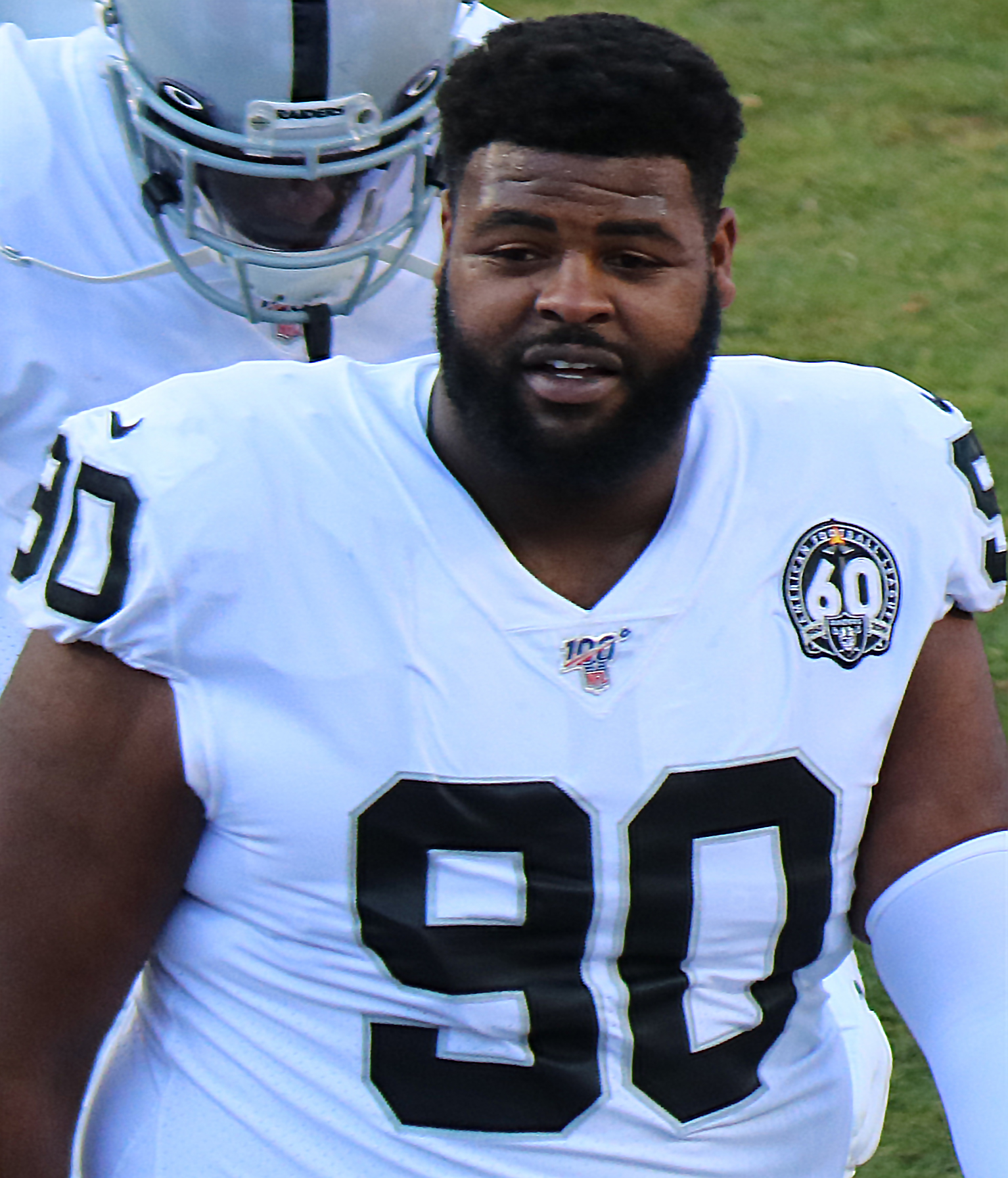 Johnathan Hankins, a National Football League player.